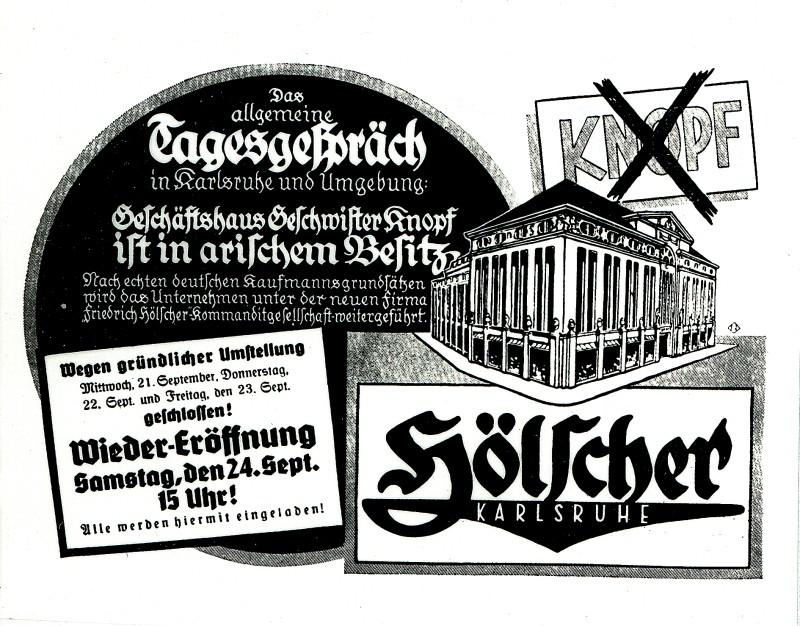 Advert in Nazi newspaper "Der Fuehrer" (22 September 1938) of new "Aryan" proprietors Hoelscher after taking over the Karlsruhe department store from the rightful Jewish owners, Johanna and Max Knopf. The house in present-day Kaiserstrasse is now run by Karstadt.